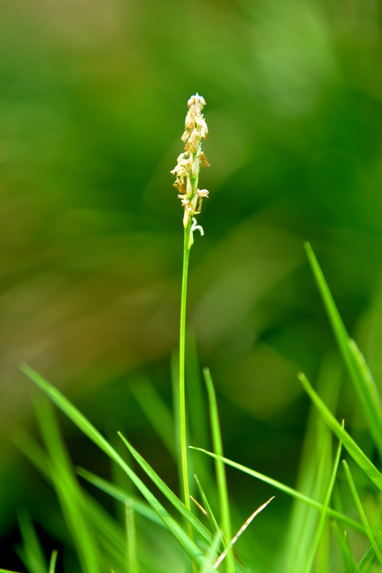 The inflorescence of Zoysia grass, a variety of lawn grass